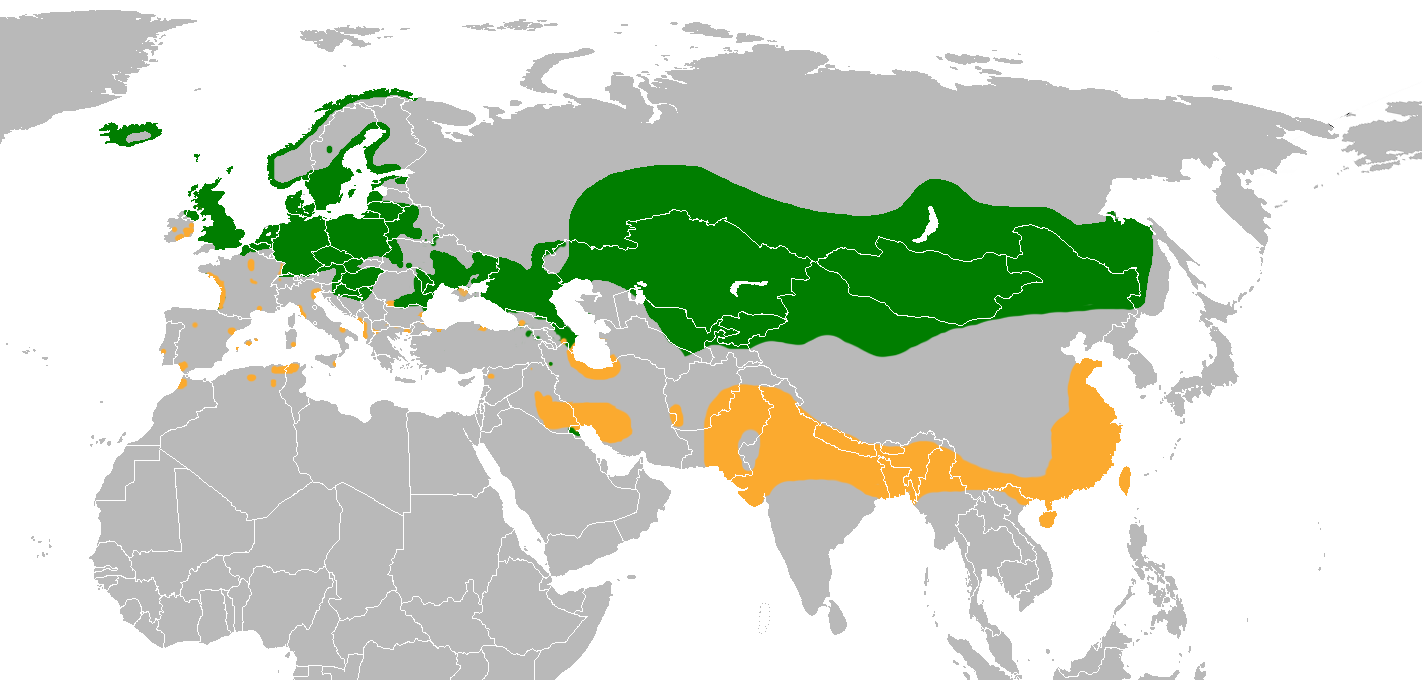 Anser anser range map. Color key; 007e00 - breeding; fbaa2f - non breeding, ff0000 - introduced.